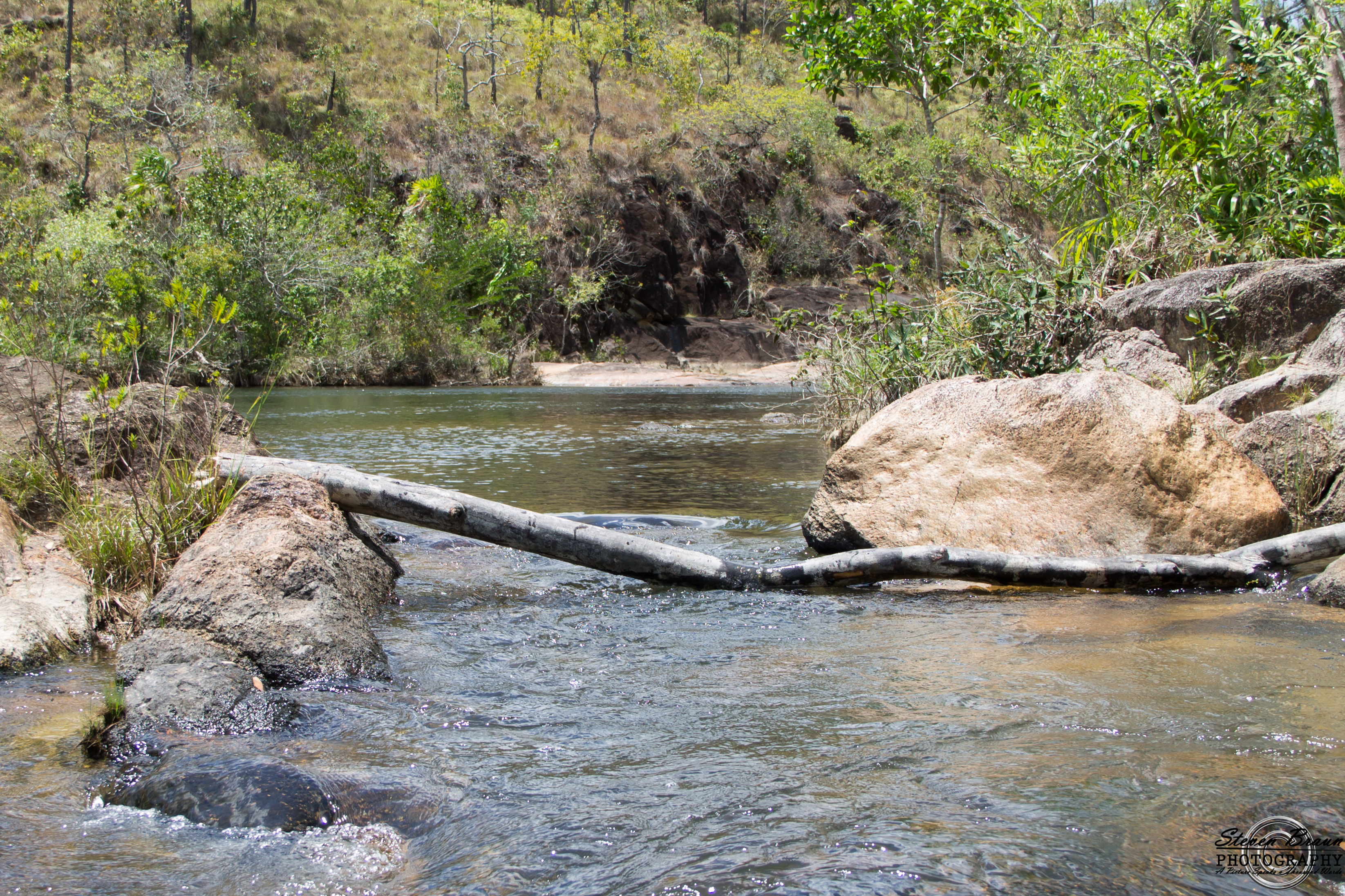 Peaceful Water Pool